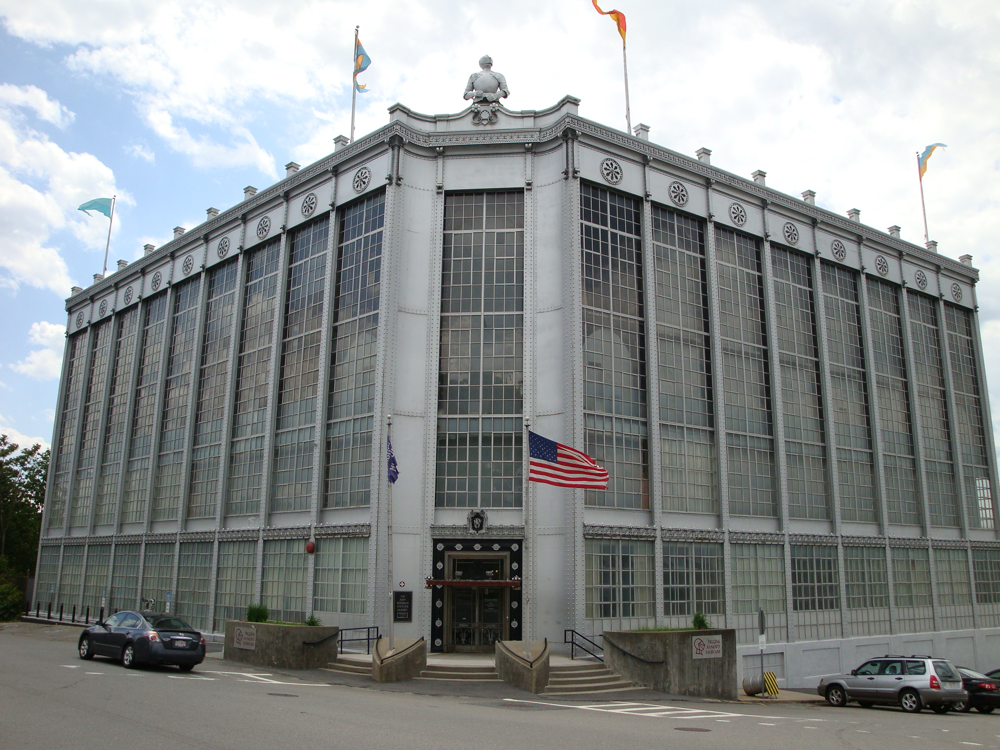 Higgins Armory Museum Jun 1 2009